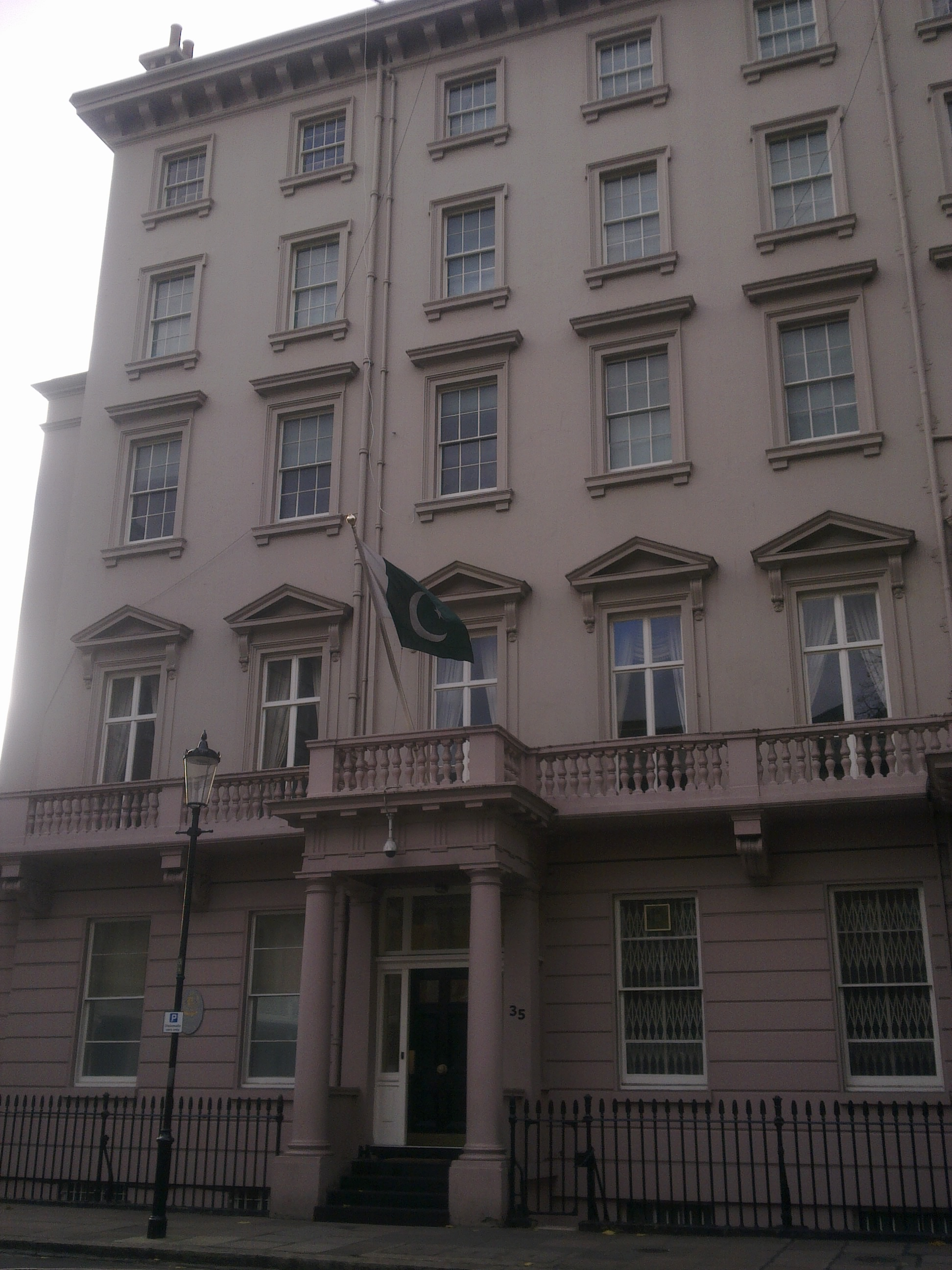 HC of Pakistan in London 1